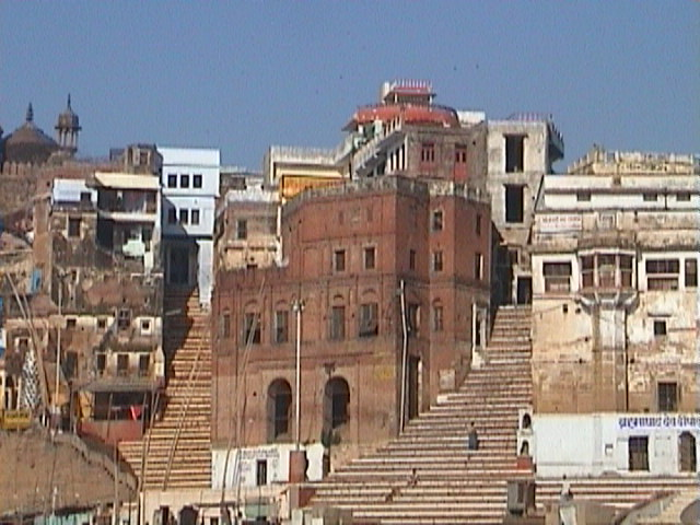 Hindu culture, have attributed supreme importance to the preservation of tradition Classical civilizations, and especially the Indian one, have attributed supreme importance to the preservation of tradition. Its central idea was that social institutions, scientific knowledge and technological applications need to use "heritage" as a "resource". Using contemporary language, we would say that ancient Indians considered, as social resources, both economic assets (like natural resources and their exploitation structure) and factors promoting social integration (like institutions for preserving knowledge and maintaining civil order). Ethics considered that what had been inherited should not be consumed, but should be handed over, possibly enriched, to successive generations. This was a moral imperative for all, except in the final life stage of sannyasa